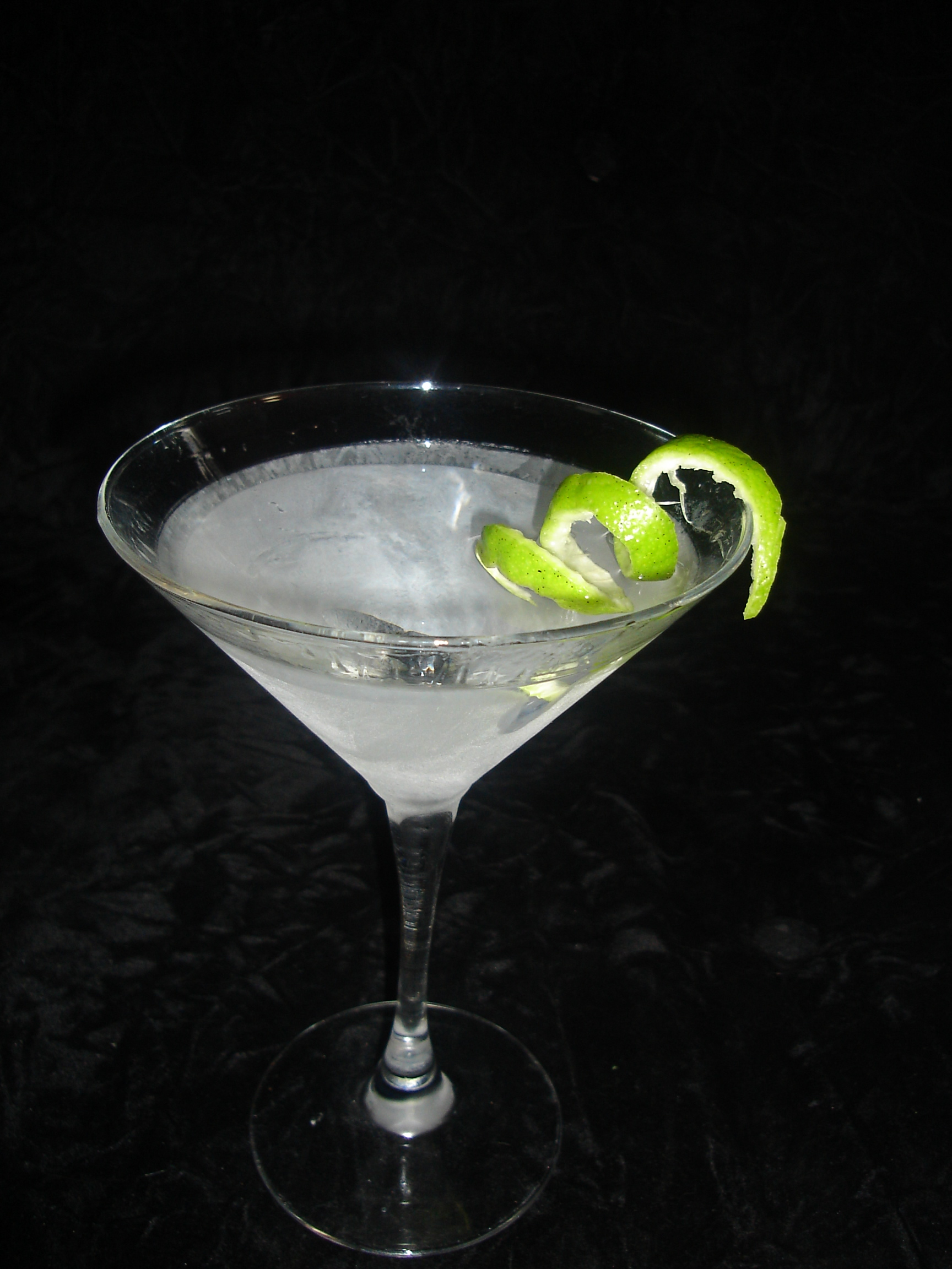 the perfect martini (citrus, gin, martini, Tanqueray 10, lime twist, drink, drinking, Friday, cocktail, extra tasty, snob, drink snob, martini glass, perfect martini)